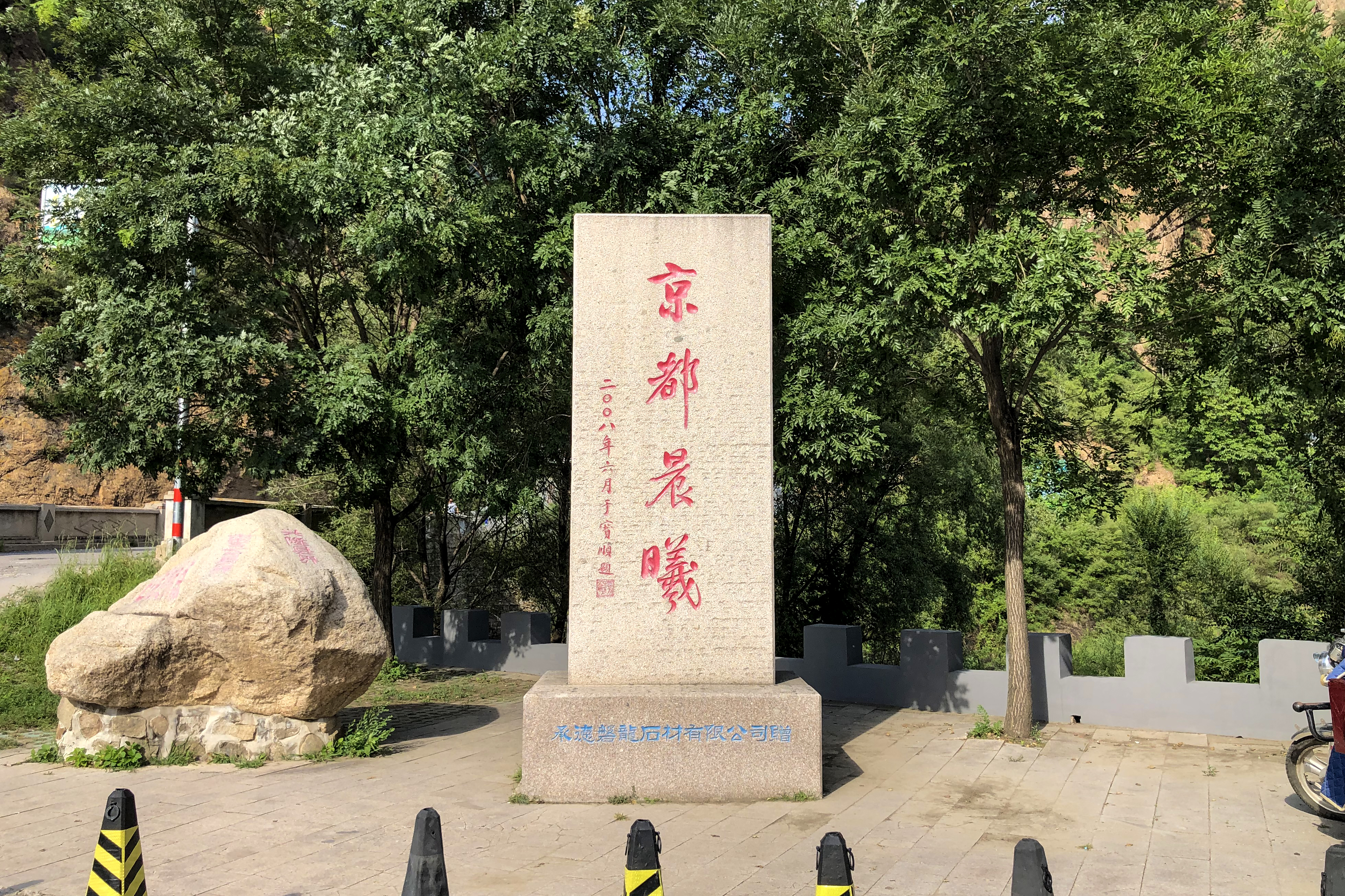 This is the easternmost point in Beijing - thus, it meets the first sunrise in Beijing everyday.